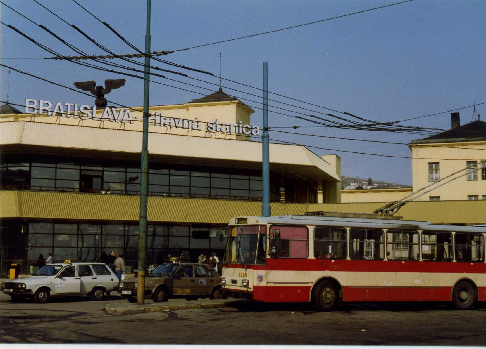 Škoda 14Tr trolleybus in Bratislava, Slovakia